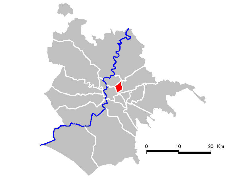 Locator maps of Rome